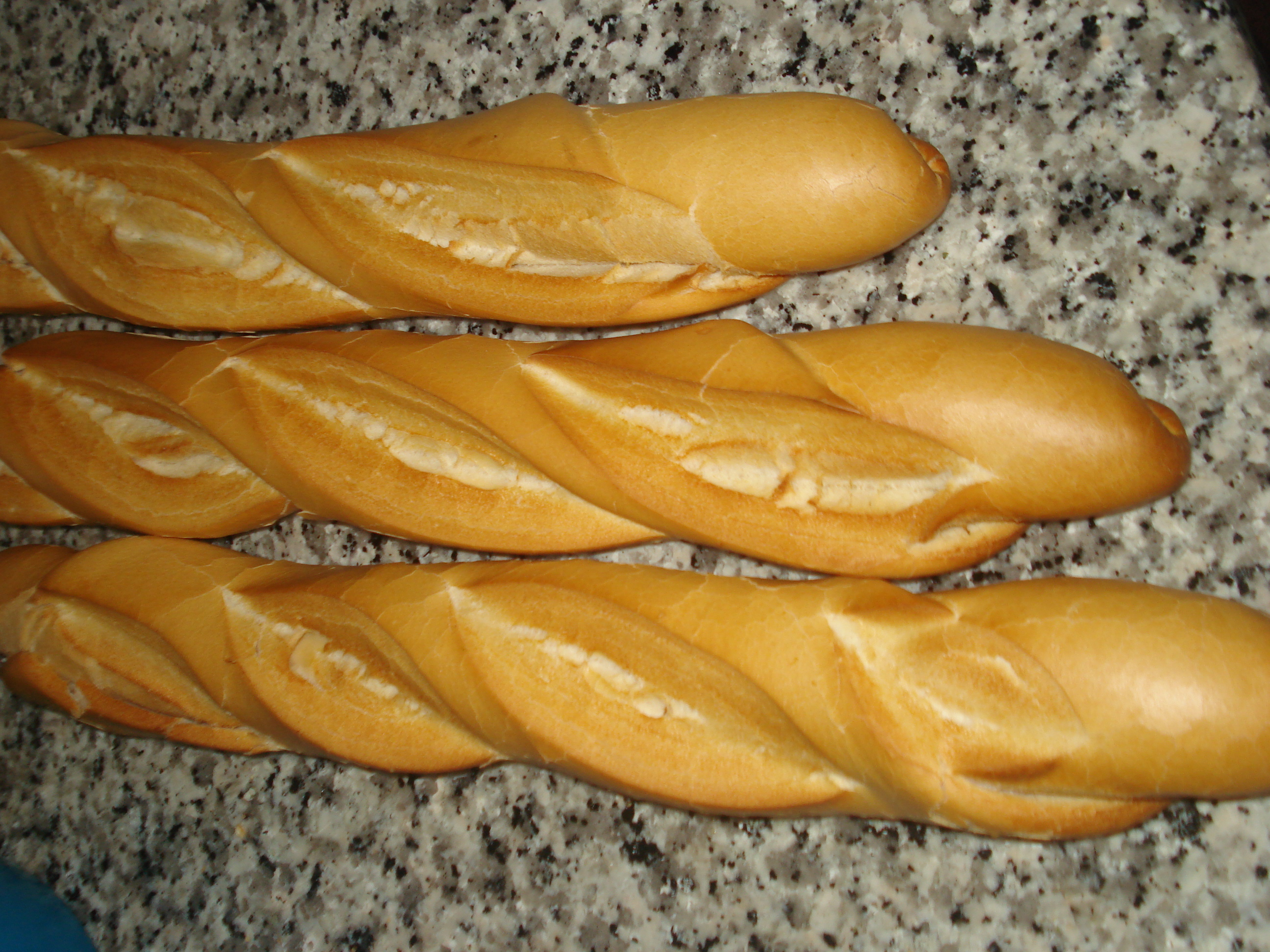 This is an image of food from Tunisia